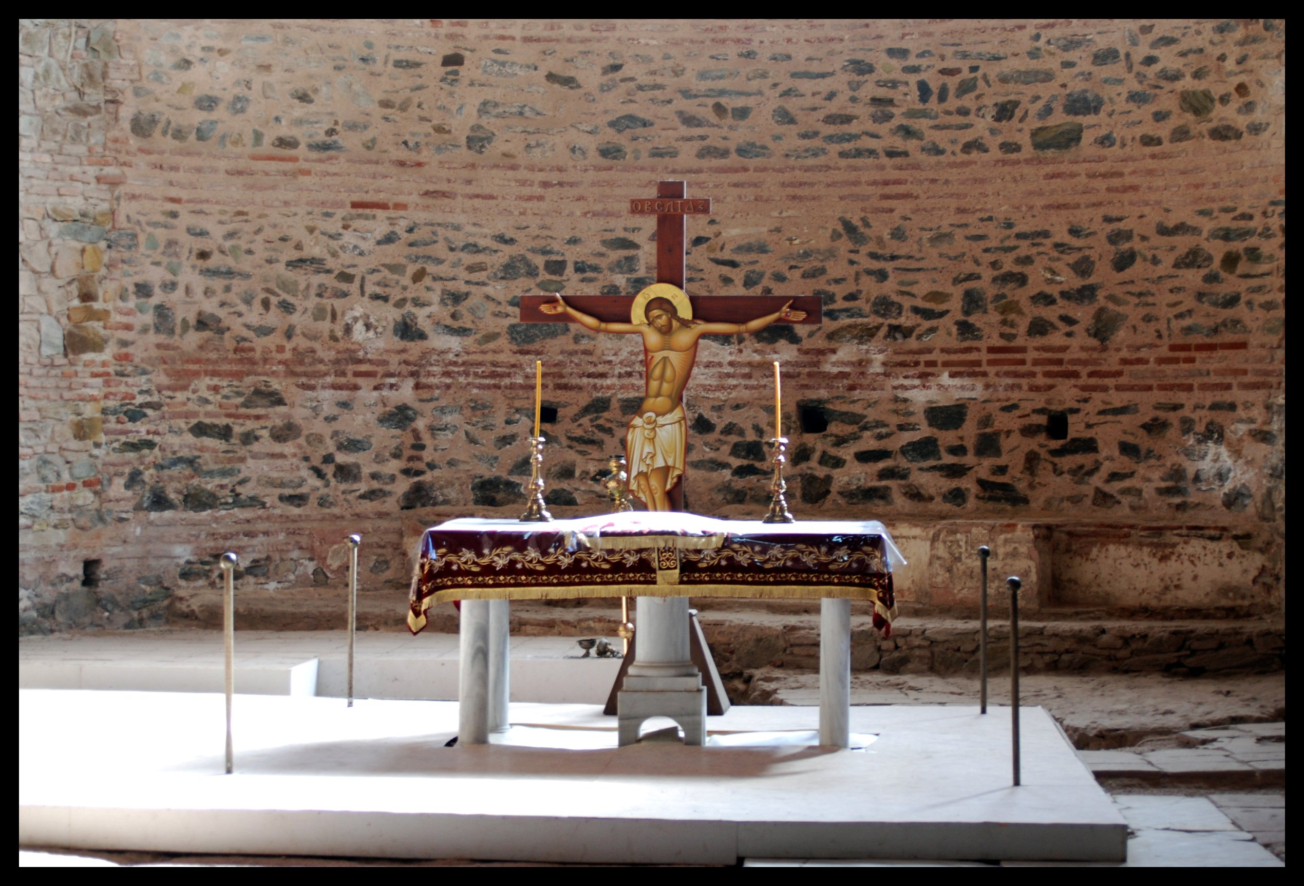 Altar in Rotunda of Galerius, Thessaloniki